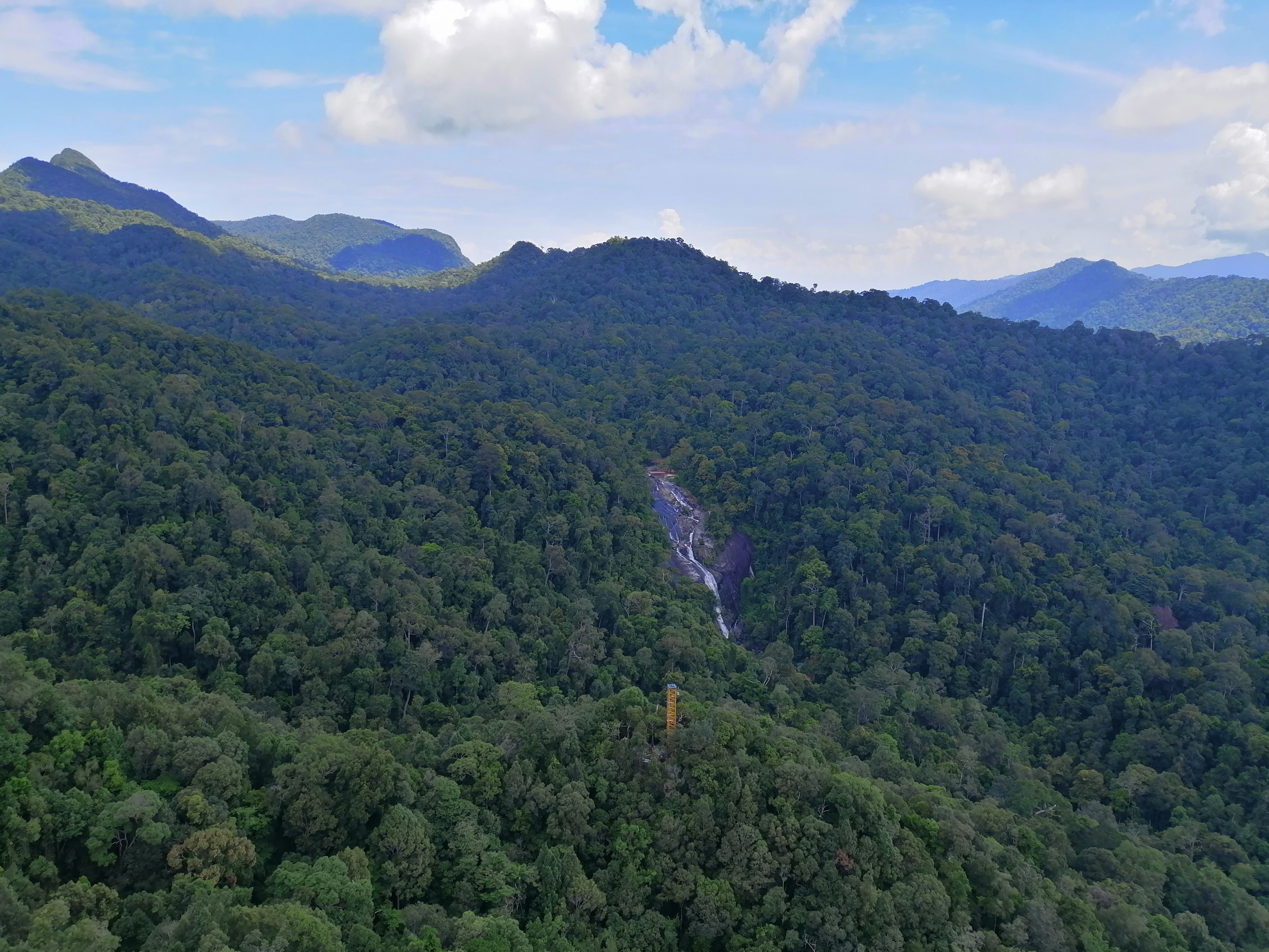 Telaga tujoh waterfalls,Langkawi